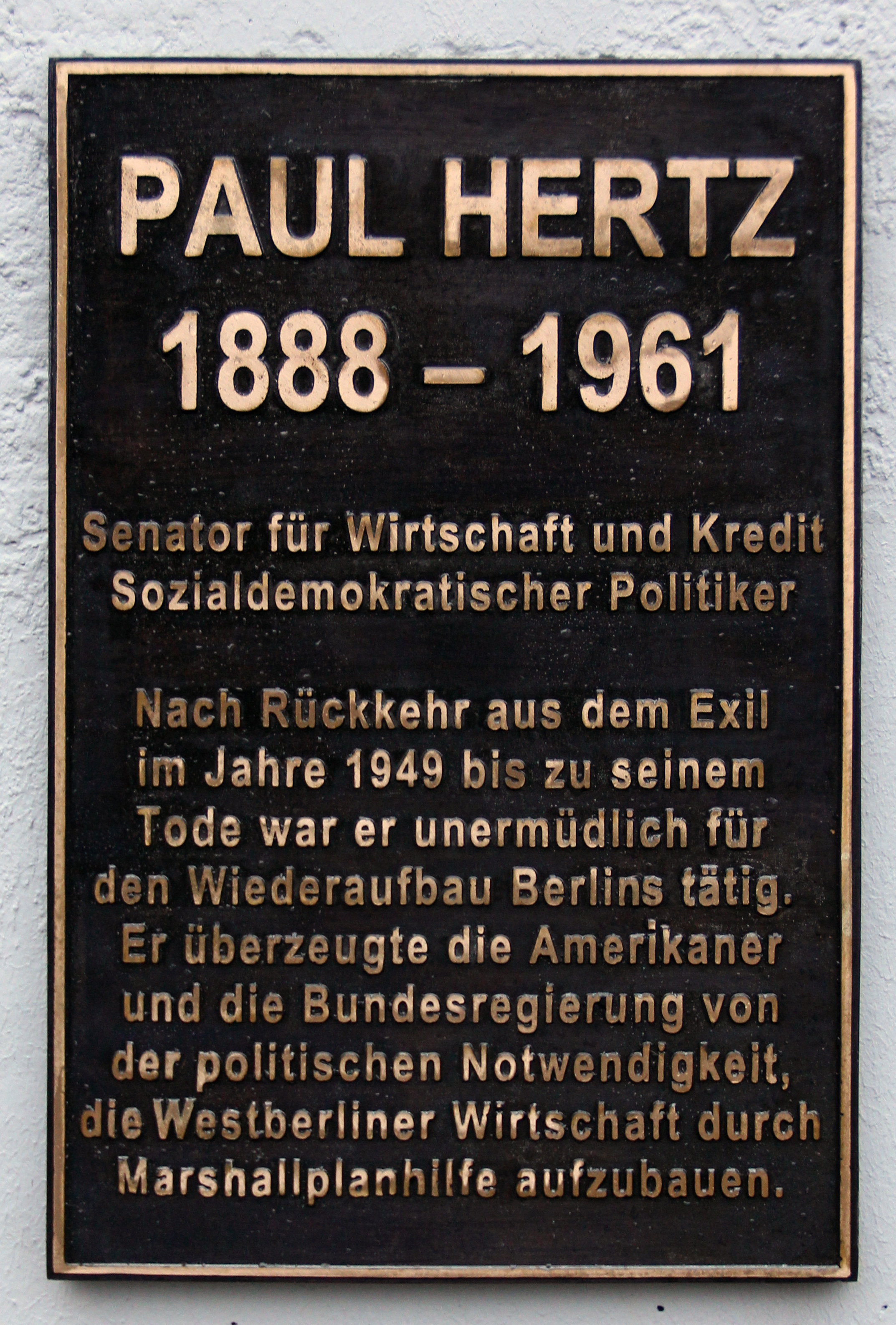 Memorial plaque, Paul Hertz, Heckerdamm 237, Berlin-Charlottenburg-Nord, Germany